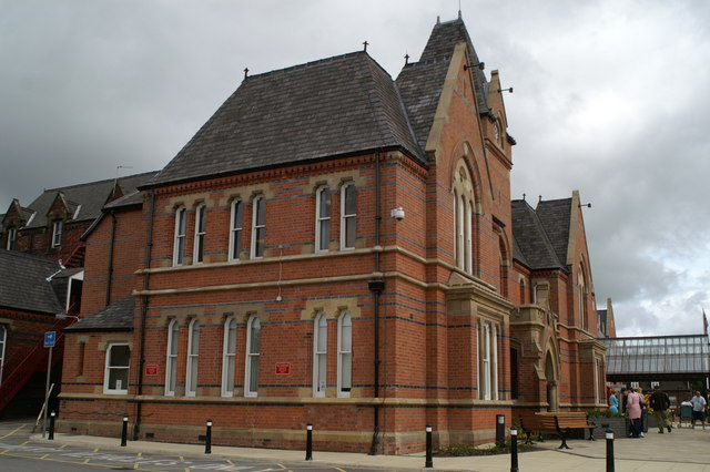 The Royal Albert Edward Infirmary, Wigan Part of the original 1873 building. Much of the Victorian Hospital has been demolished and there has been extensive rebuilding and extension over the past decade or so.